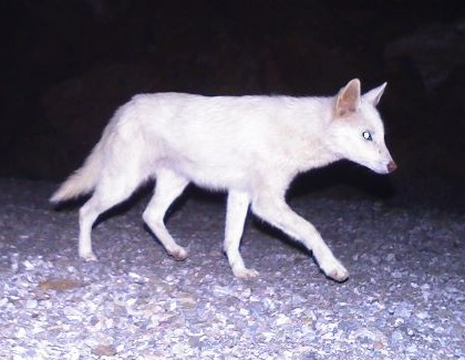 Albino jackal photographed in southeastern Iran during a research project into the population survey of the Asiatic cheetah in Ravar Wildlife Refuge.